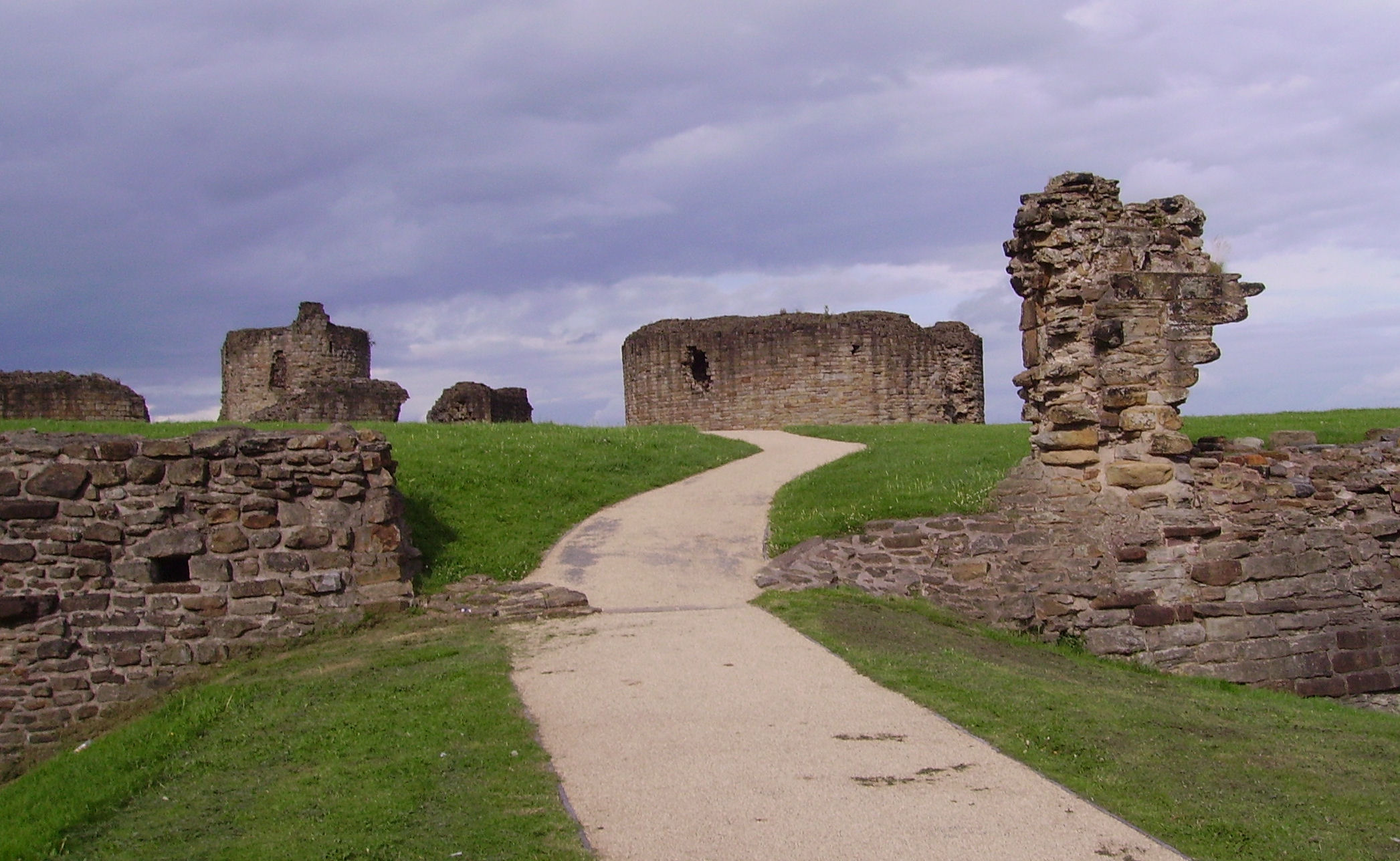 Flint Castle in Wales